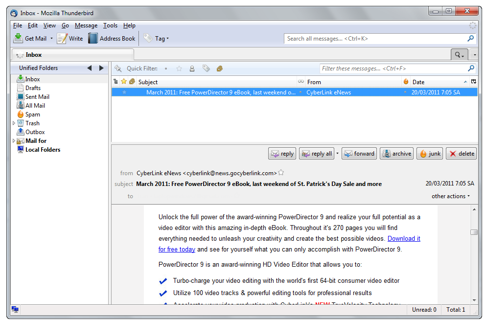 A screenshot from Mozilla Thunderbird 3.1.9